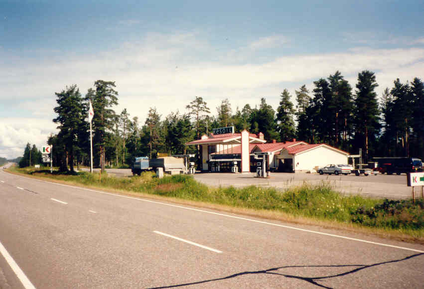 Kesoil Petrol station, Ömossa village, Kristinestad, Finland.